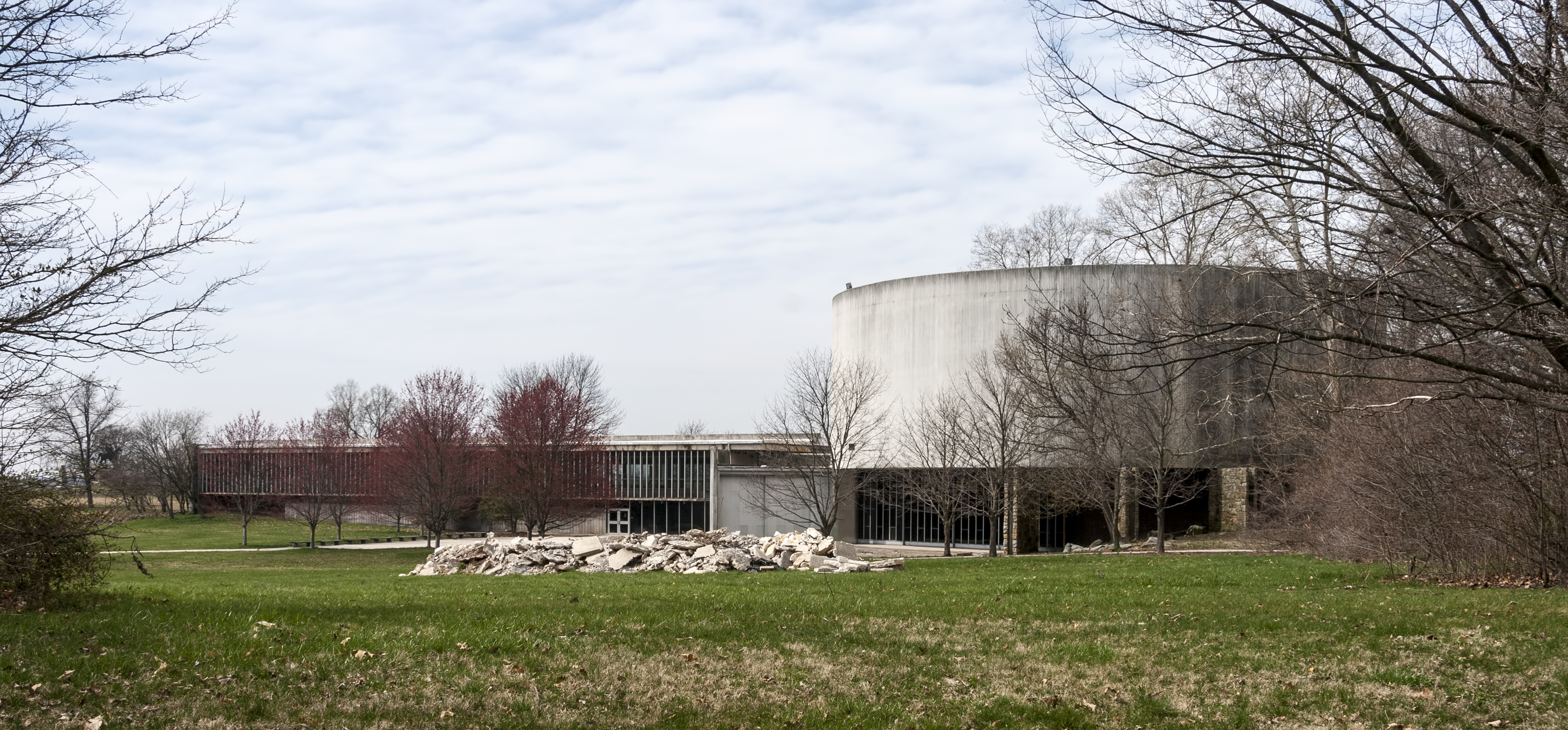 The now-demolished Gettysburg Cyclorama at Gettysburg National Military Park, Pennsylvania, USA